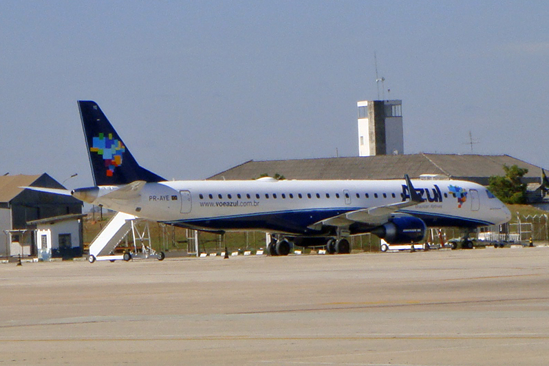 Azul jetplane at its hub in Campinas-Viracopos International Airport, Sao Paulo, Brazil